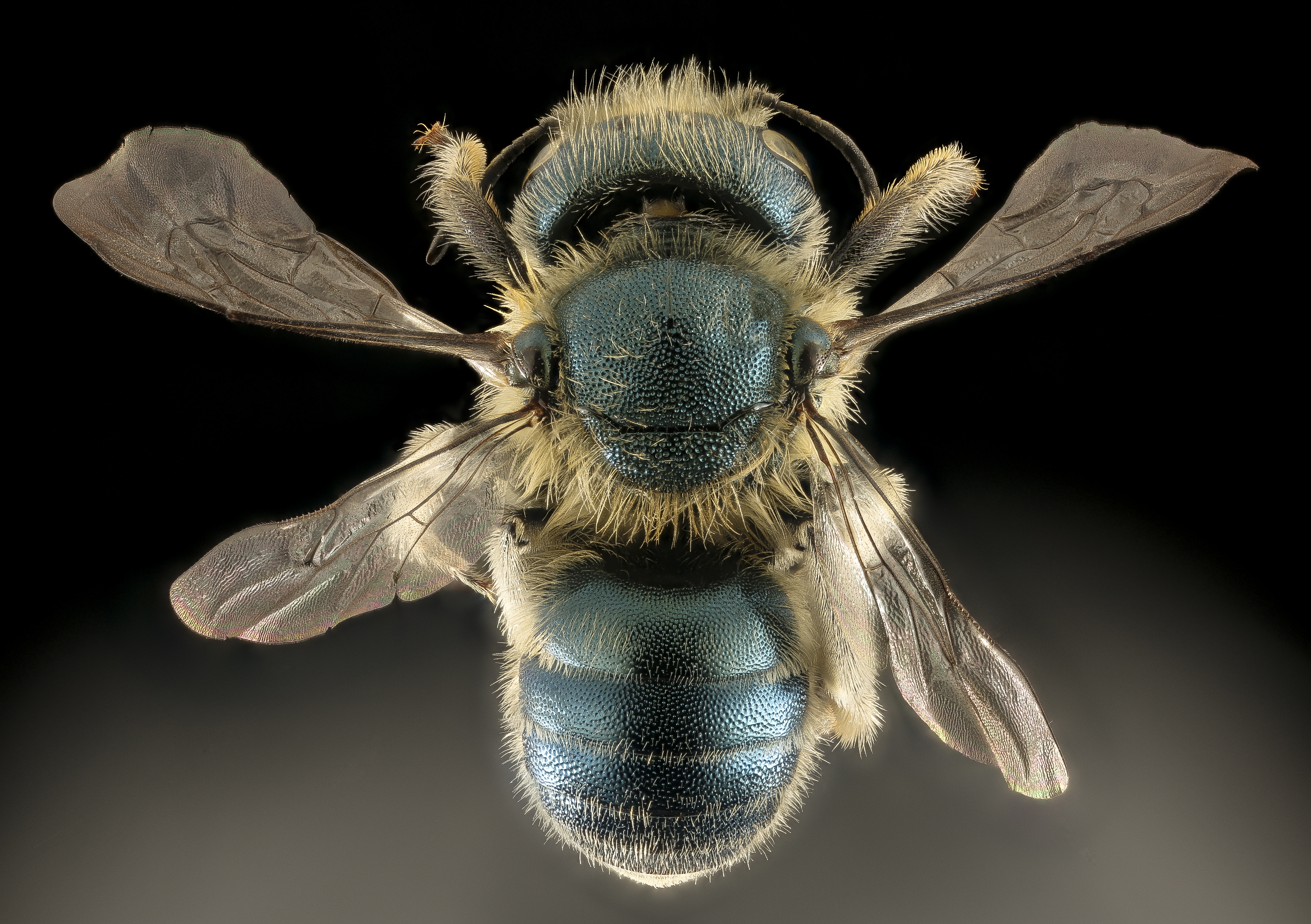 This beautiful blue bee nests in snail shells. I am not sure if there are other species in the East that nest in snail shells, there could be...we know so very little about most species. Collected in Maryland somewhere (probably western Maryland) and Photographed by Wayne Boo. 02:45, 29 February 2016 (UTC)02:45, 29 February 2016 (UTC) 0 02:45, 29 February 2016 (UTC)02:45, 29 February 2016 (UTC) All photographs are public domain, feel free to download and use as you wish. Photography Information: Canon Mark II 5D, Zerene Stacker, Stackshot Sled, 65mm Canon MP-E 1-5X macro lens, Twin Macro Flash in Styrofoam Cooler, F5.0, ISO 100, Shutter Speed 200 Beauty is truth, truth beauty - that is all Ye know on earth and all ye need to know " Ode on a Grecian Urn" John Keats You can also follow us on Instagram account USGSBIML Want some Useful Links to the Techniques We Use? Well now here you go Citizen: Art Photo Book: Bees: An Up-Close Look at Pollinators Around the World Basic USGSBIML set up: USGSBIML Photoshopping Technique: Note that we now have added using the burn tool at 50% opacity set to shadows to clean up the halos that bleed into the black background from "hot" color sections of the picture. PDF of Basic USGSBIML Photography Set Up: ftp://ftpext.usgs.gov/pub/er/md/laurel/Droege/How%20to%20Take%20MacroPhotographs%20of%20Insects%20BIML%20Lab2.pdf Google Hangout Demonstration of Techniques: or Excellent Technical Form on Stacking: Contact information: Sam Droege 301 497 5840